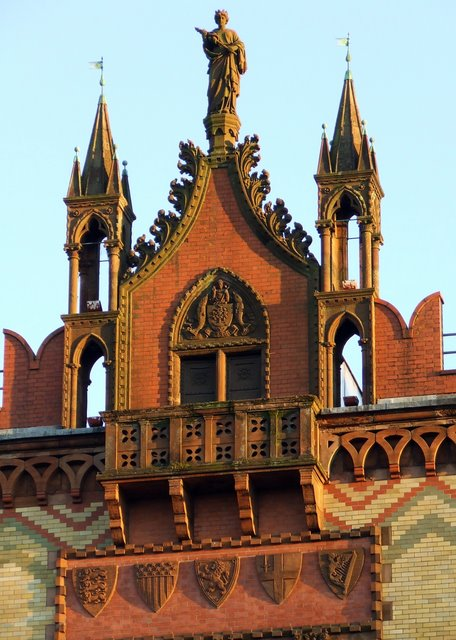 Templeton Building detail On the former carpet factory at Glasgow Green. I was informed by a passer-by that the statue is of St Enoch.